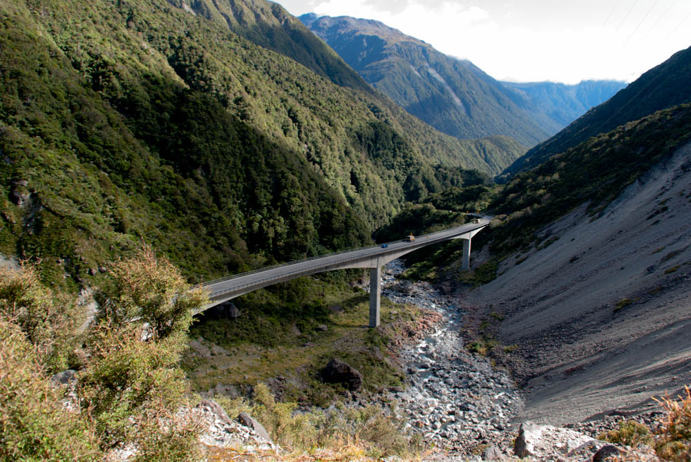 The Otira Viaduct March 13, 2014 West Coast, South Island, New Zealand. The Otira Viaduct just north of Arthurs Pass is impressive! Spanning 440m it was created to replace a narrow stretch of winding road known as the Devils staircase which is now a popular lookout spot. The Otira train tunnel which you travel through on the TranzAlpine is 8.5km long and runs between Arthurs Pass and Otira, the tunnel opened in 1923 and at that time was one of the longest in the world. The Otira viaduct is to the south of Otira, between Otira and the Arthur's Pass summit. Completed in 1999 by McConnell Smith Pty Ltd, the 440 metres (1,440 ft) four-span viaduct carries State Highway 73 over a stretch of unstable land, replacing a narrow, winding, dangerous section of road that was prone to avalanches, slips and closures.